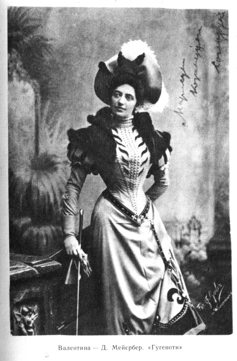 Solomiya Krushelnytska as Valentine in Les Huguenots by Giacomo Meyerbeer